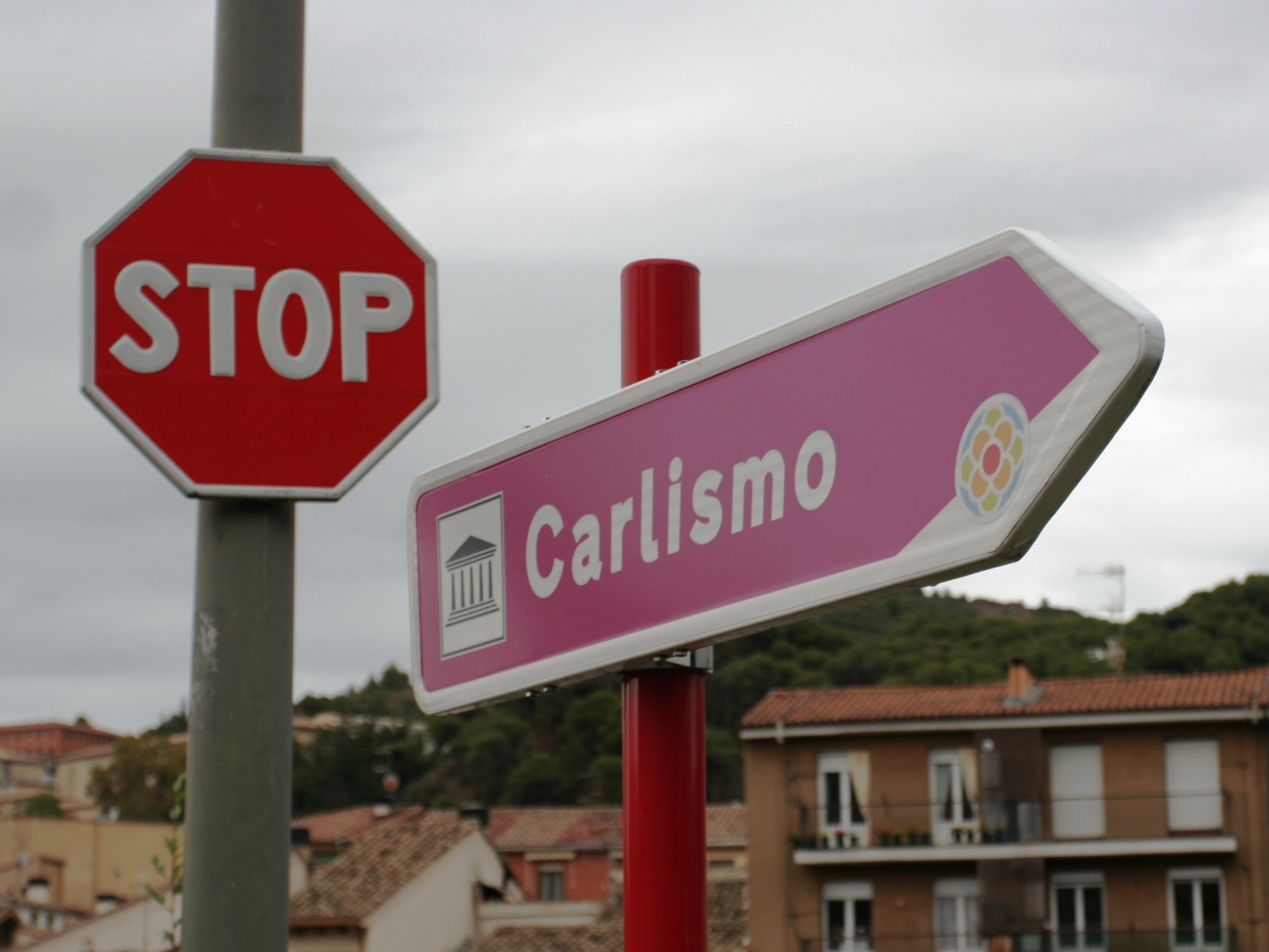 Estella. Standard road sign and a tourist sign pointing to the Museum of Carlism